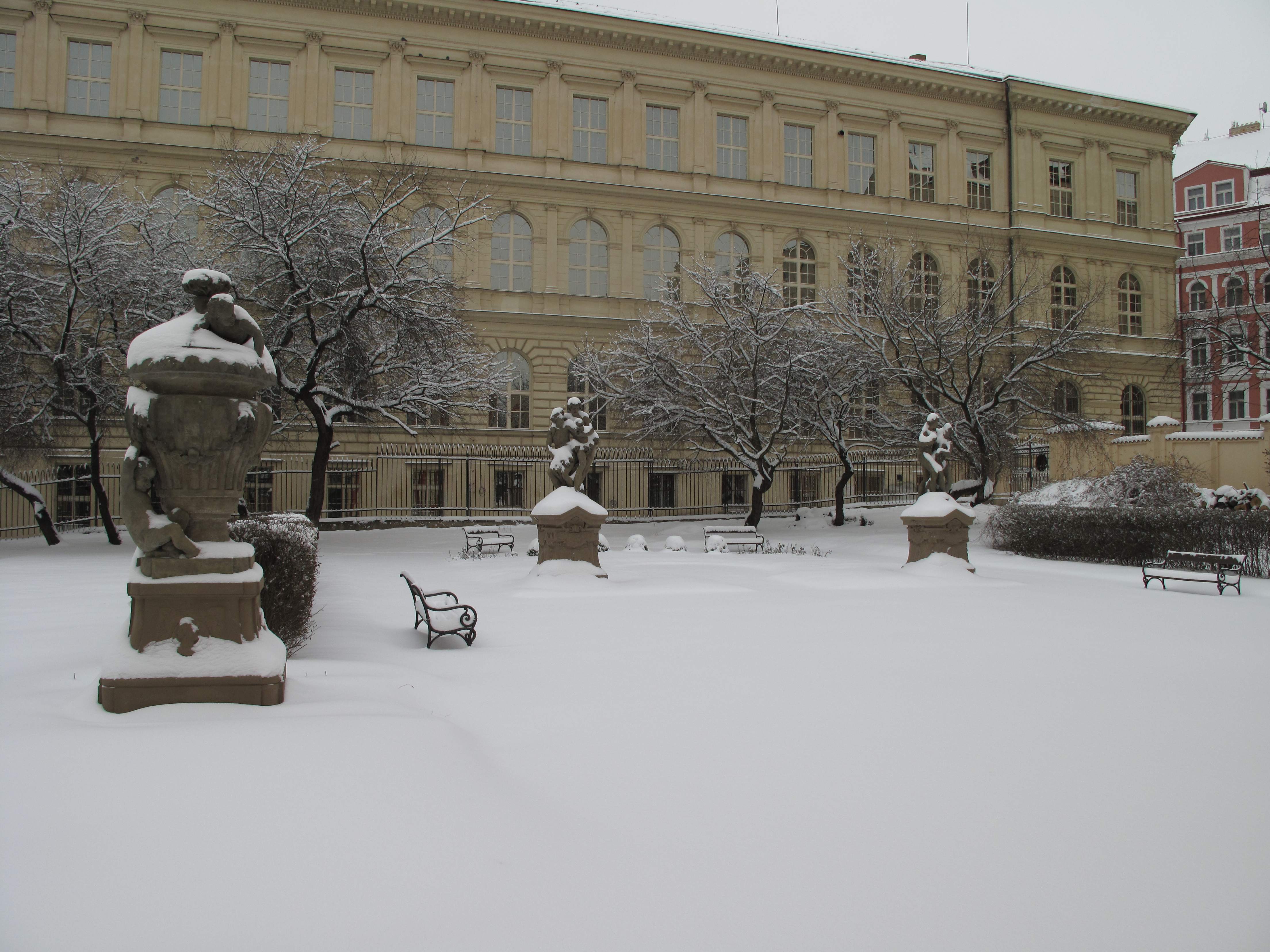 Garden covered by snow, Museum of Antonín Dvořák, Prague - New Town, Czech Republic. In the background building of the First faculty of Medicine of the Charles University.